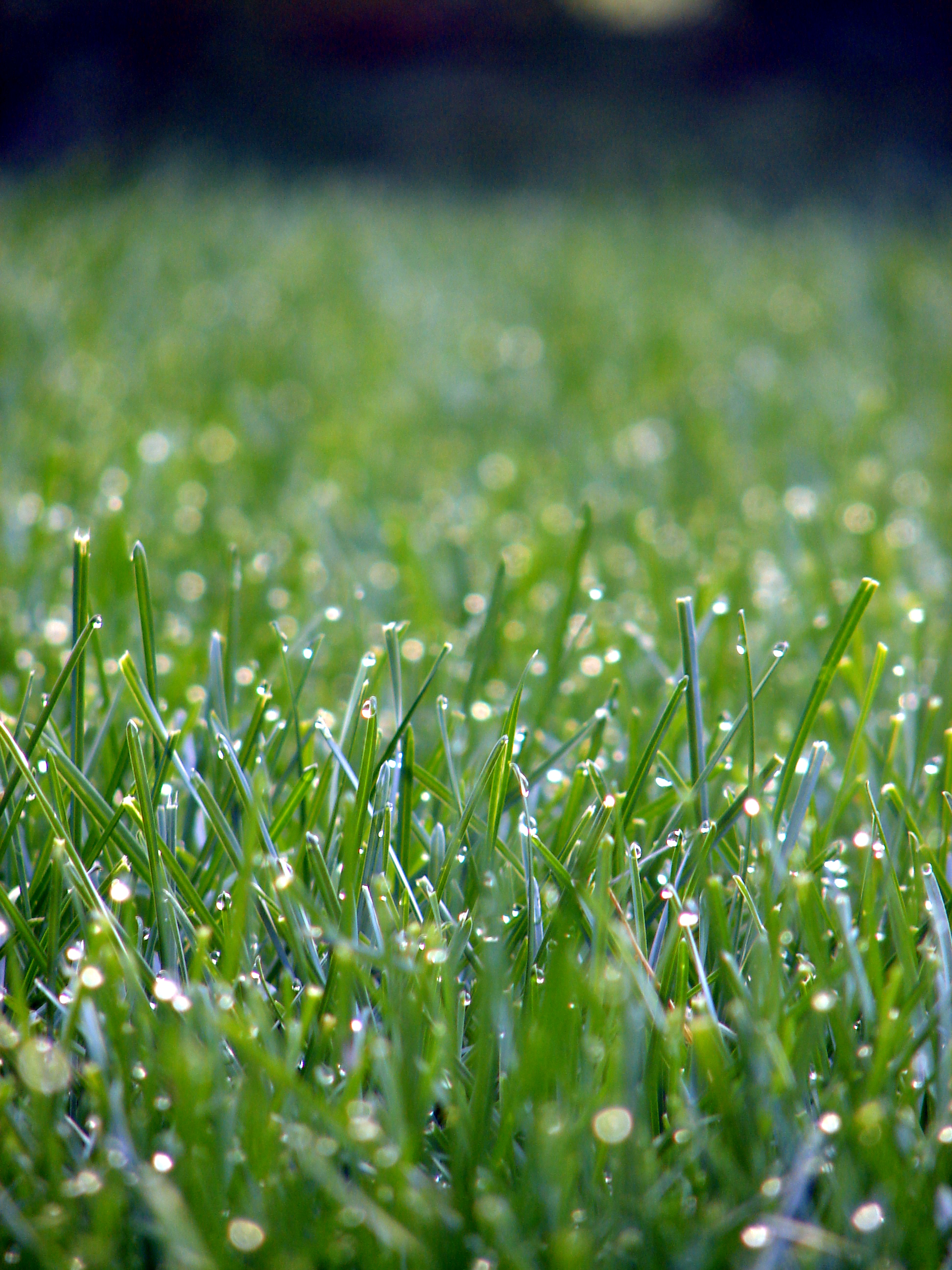 Lawn grass with morning dew.